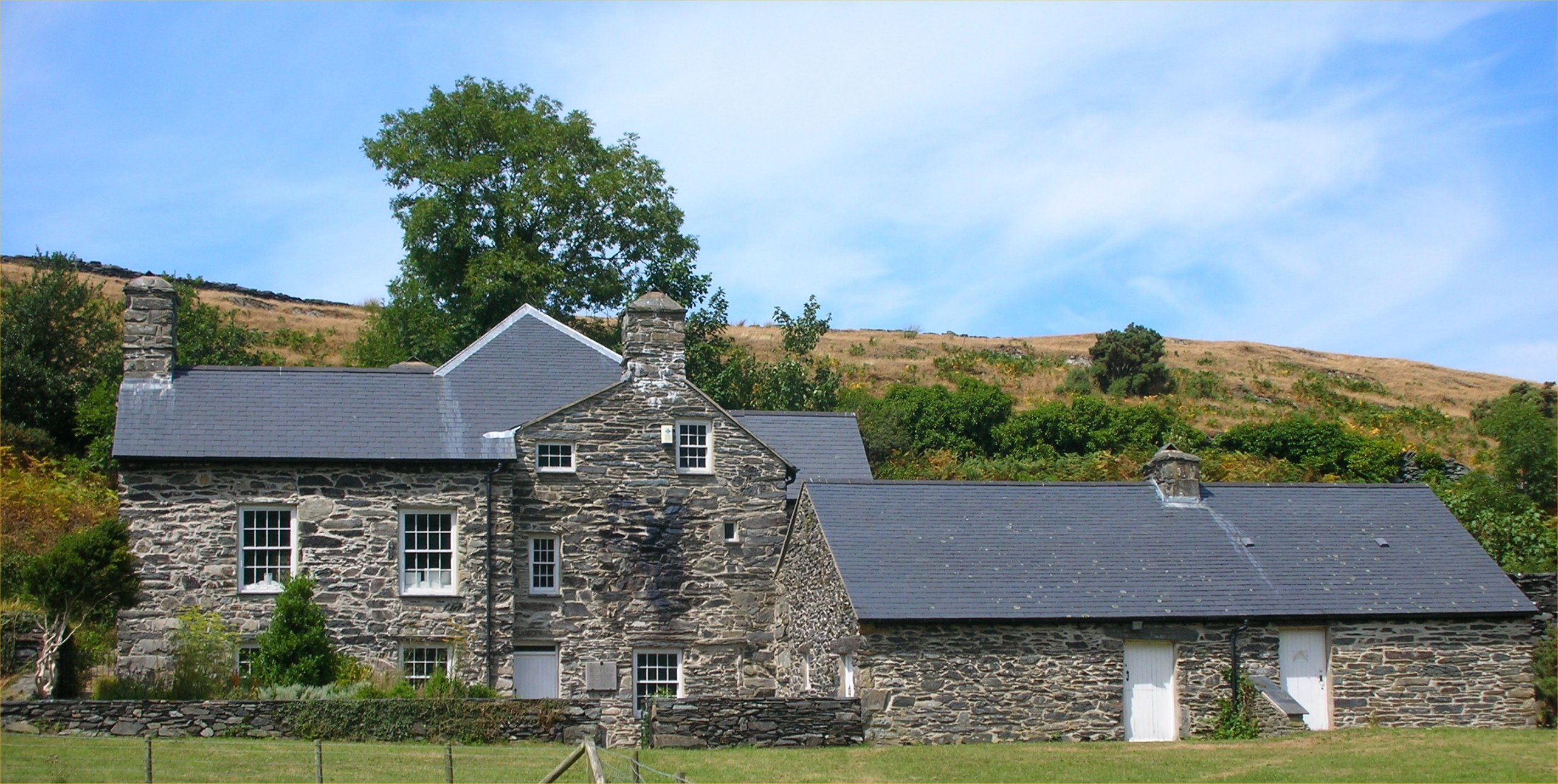 Lasynys Fawr, near Harlech, Wales. Birth place of Ellis Wynne. Photographed by me, 27 July 2006. Oosoom